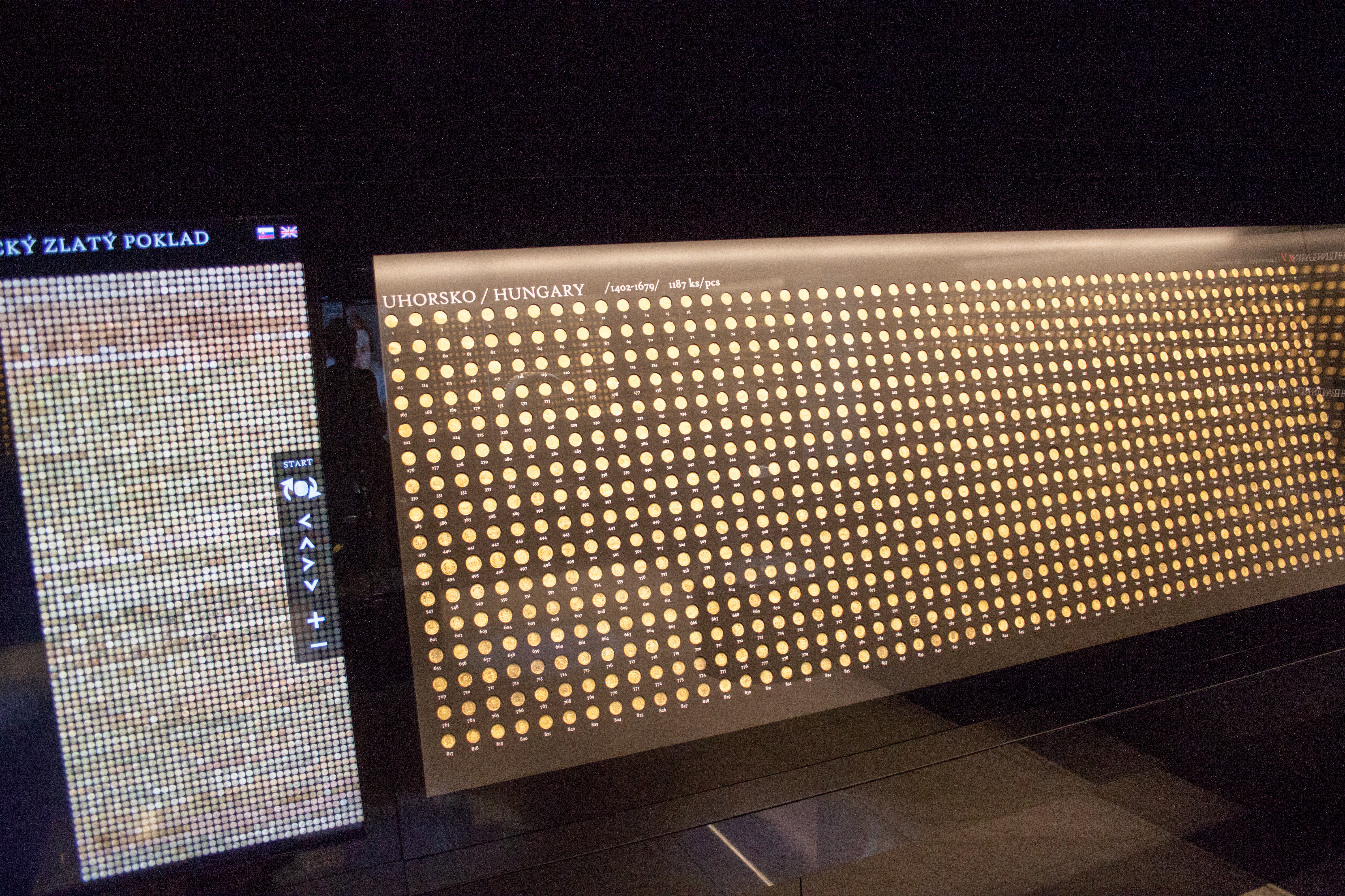 The golden treasure of Kosice in the East Slovak Museum - Hungarian coins